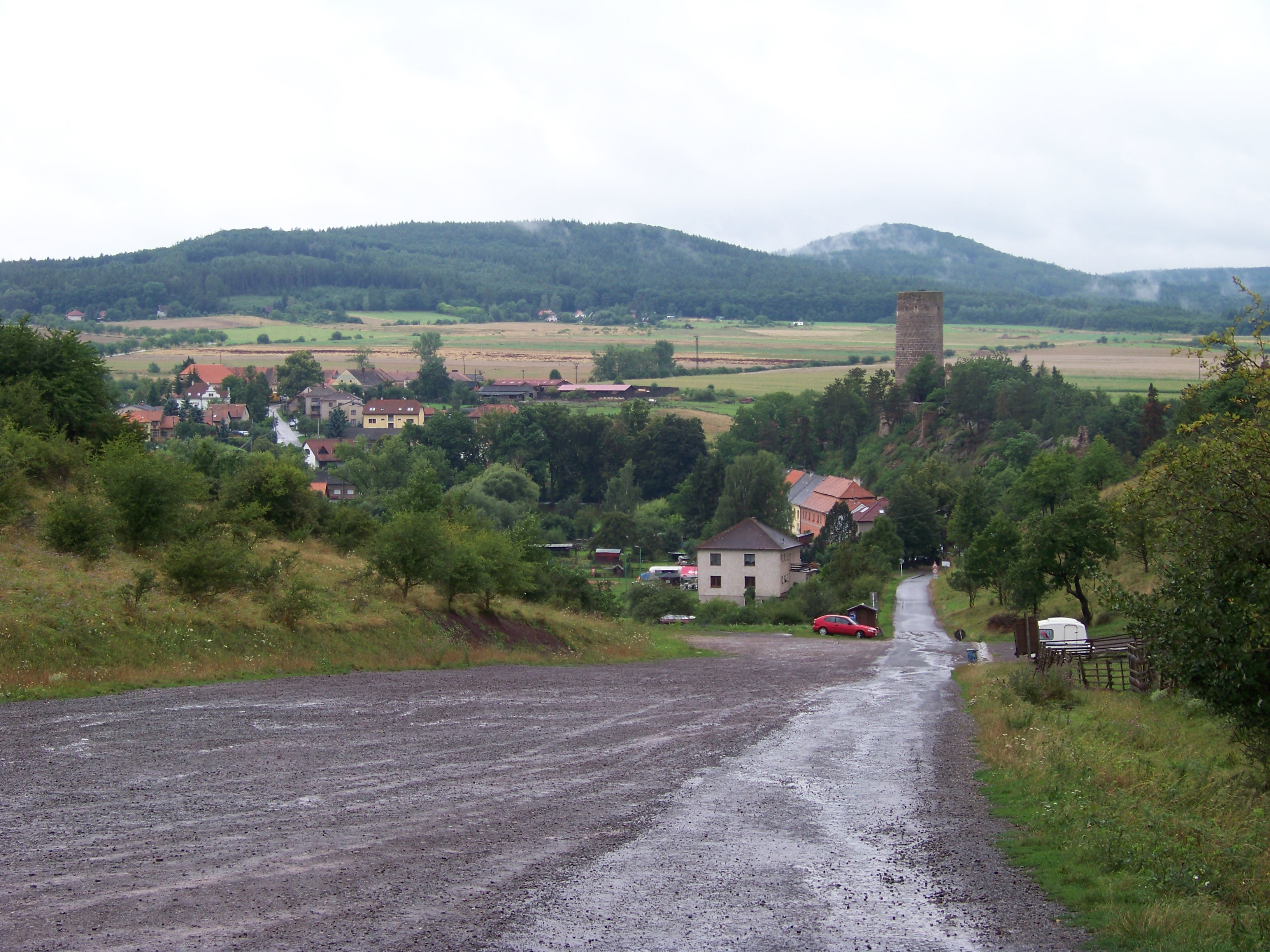 Točník, Beroun District, Central Bohemian Region, the Czech Republic. Točník village and Žebrák castle.